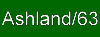 Ashland/63 destination sign.